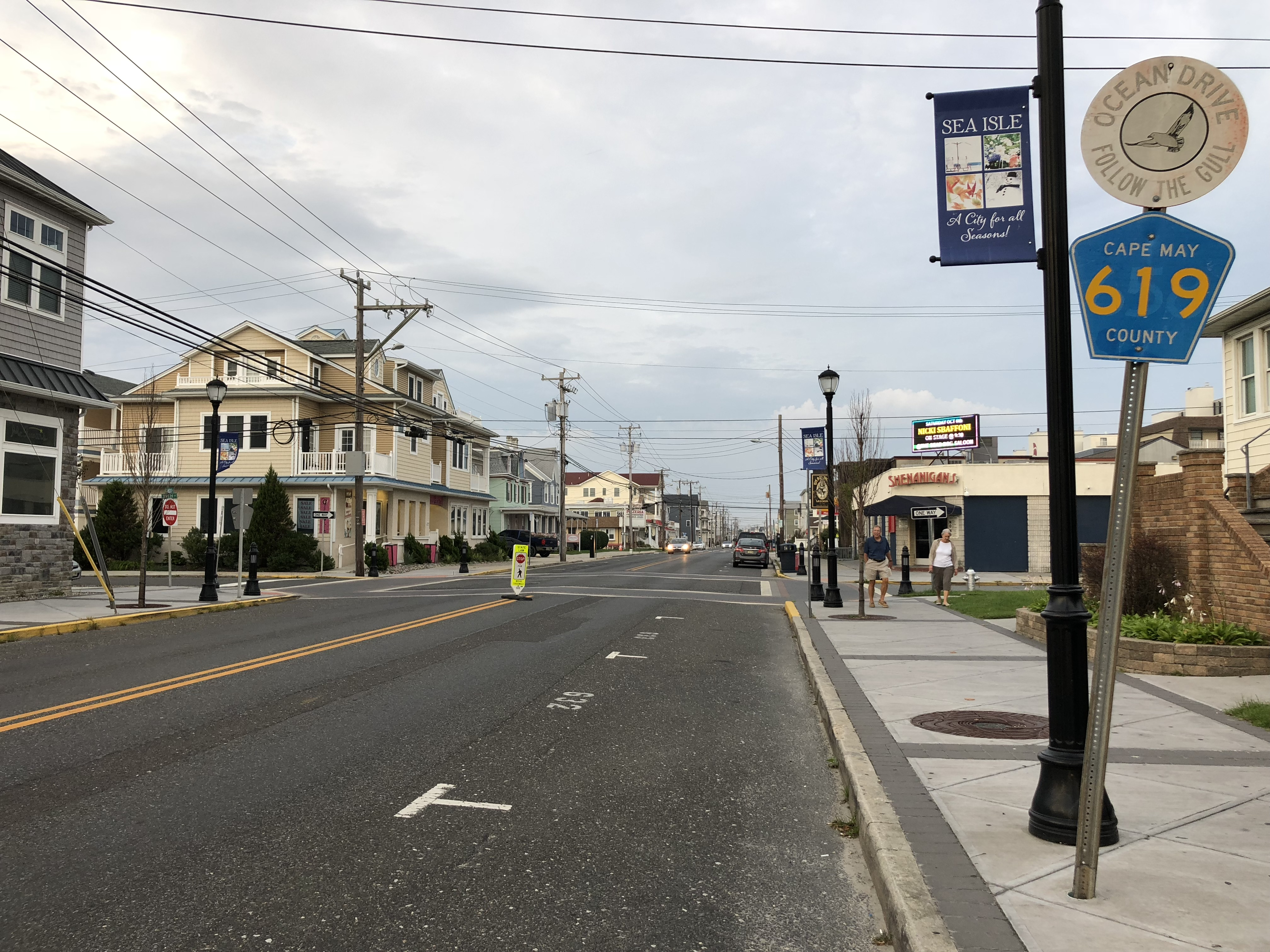 View north along Cape May County Route 619 (Landis Avenue) between 40th Street and 39th Street in Sea Isle City, Cape May County, New Jersey